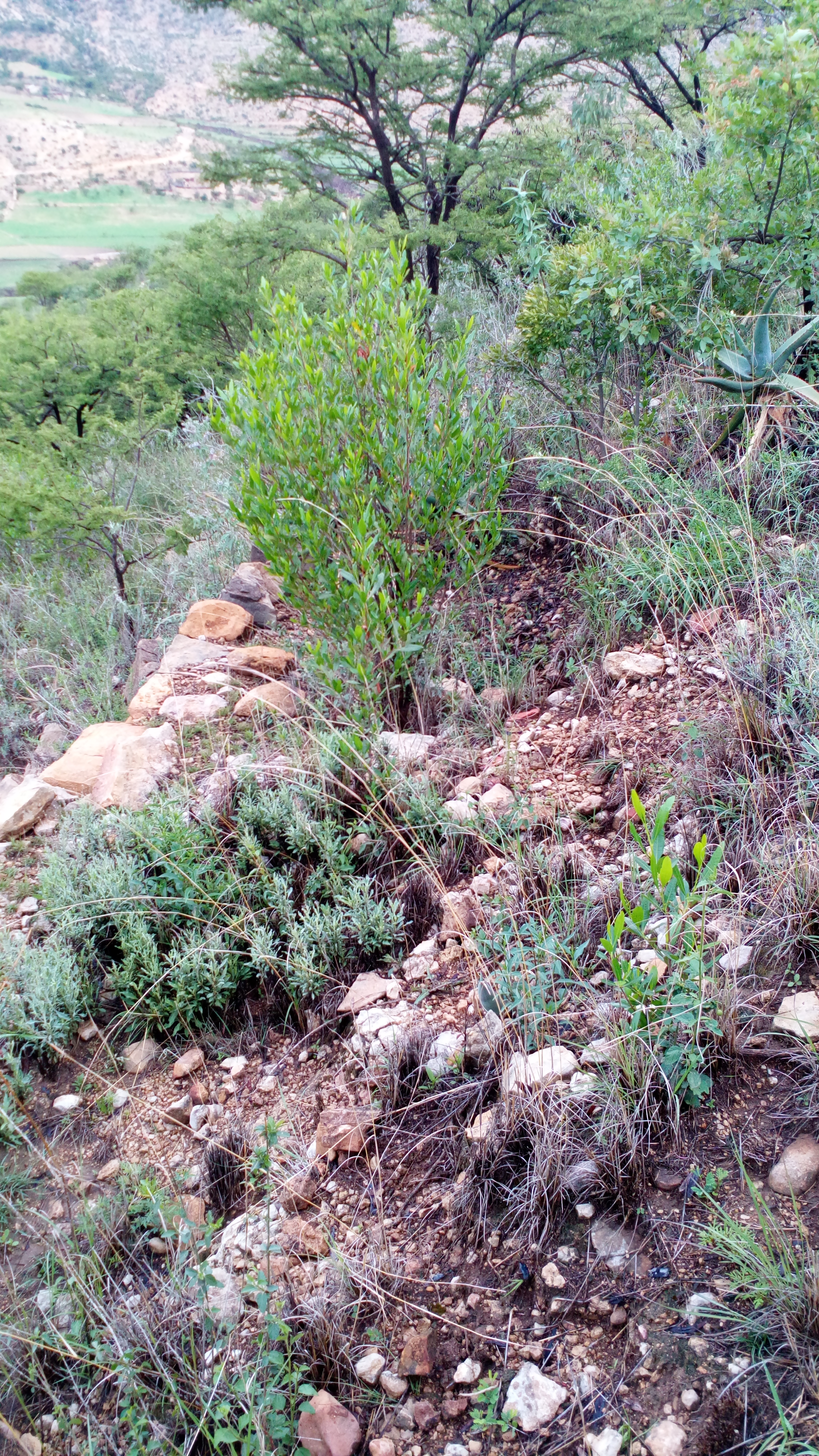 Gemgema 4